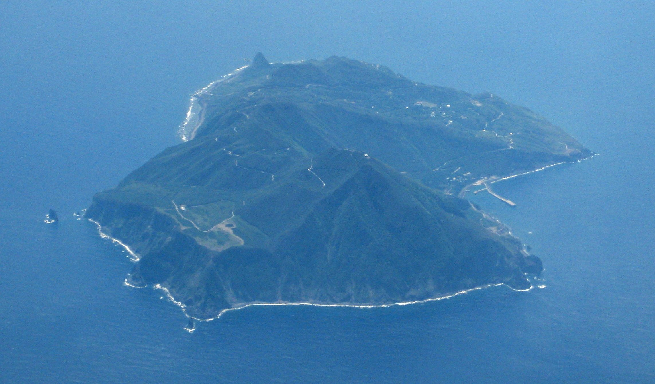 Akusekijima Island of Kagoshima, Japan